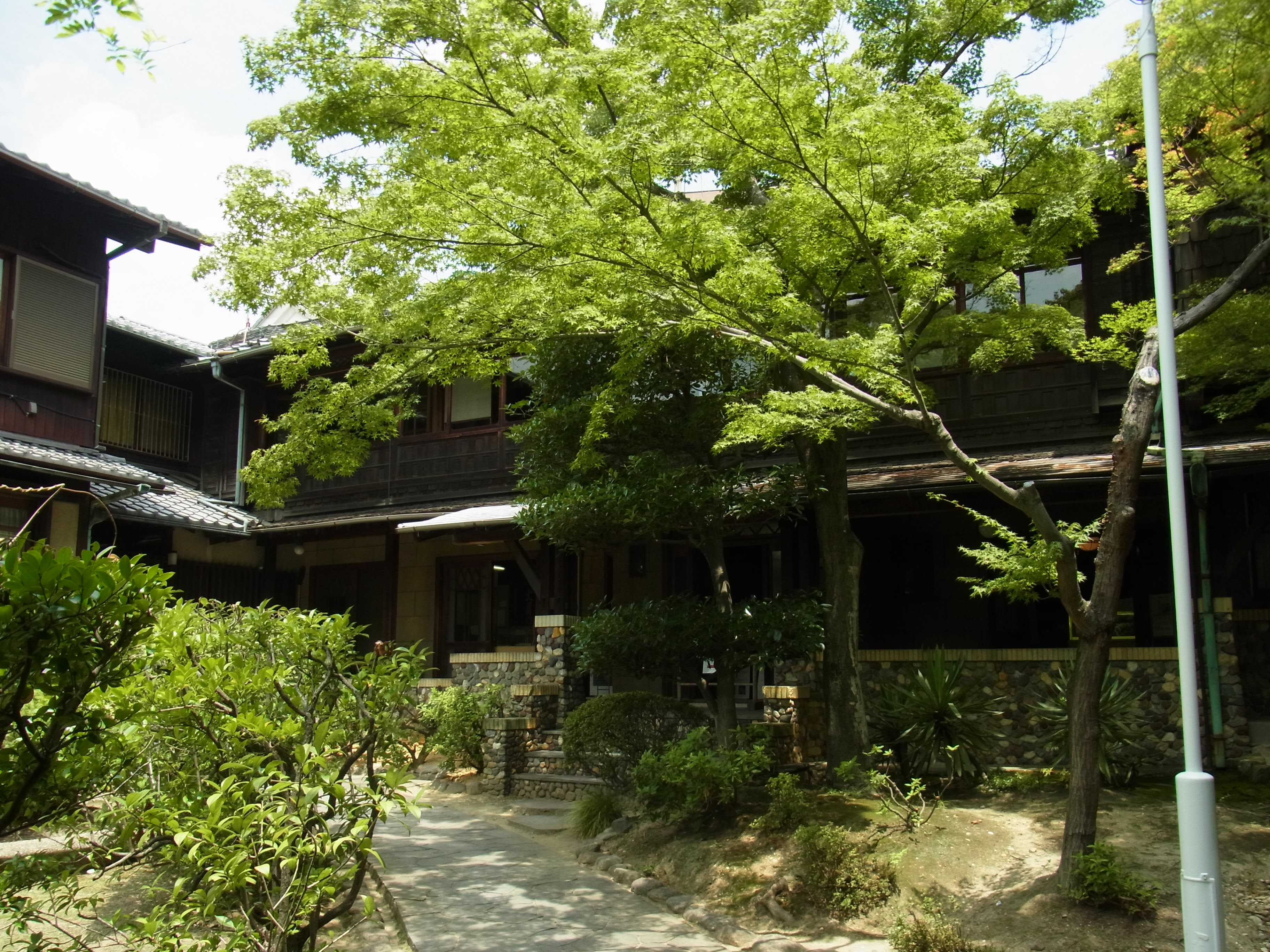 youkisou